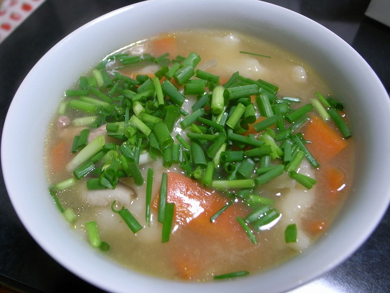 Photo shows Hittsumi, a kind of sujebi and local food of Iwate prefecture.